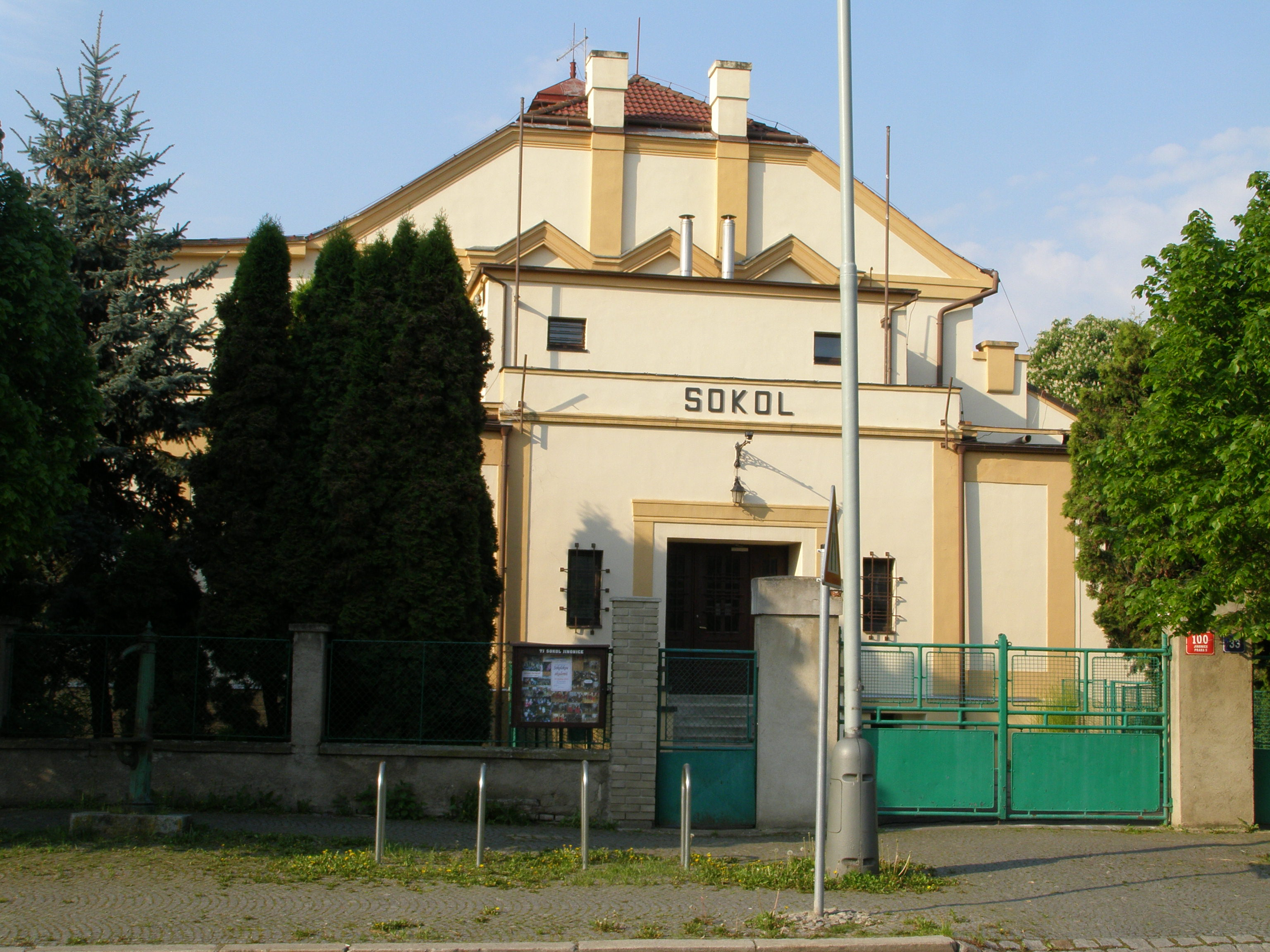 Building of TJ Sokol Prague Jinonice; in the foyer of building is situated a memorial plaque to the victims of the Protectorate in Jinonice excise